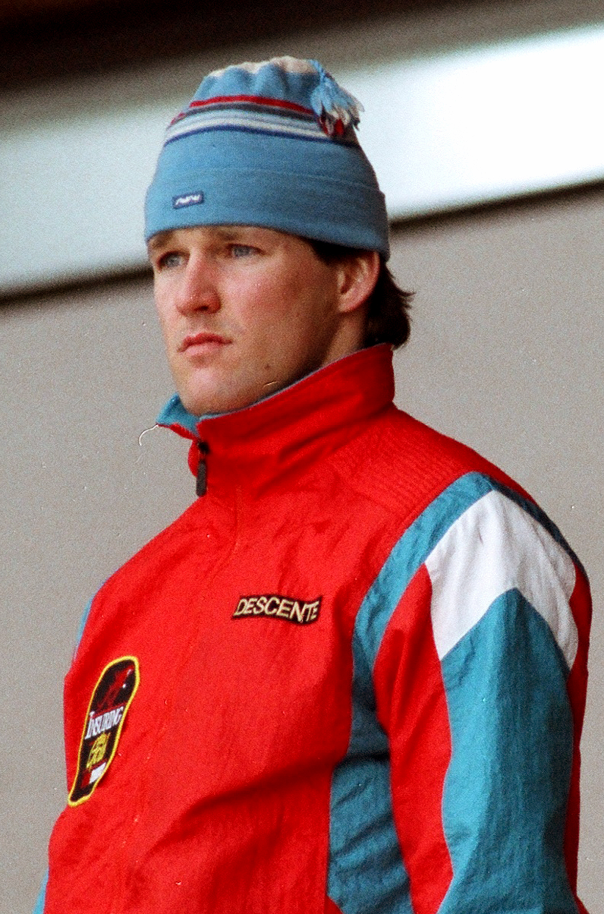 Olympic champion Dan Jansen from the US